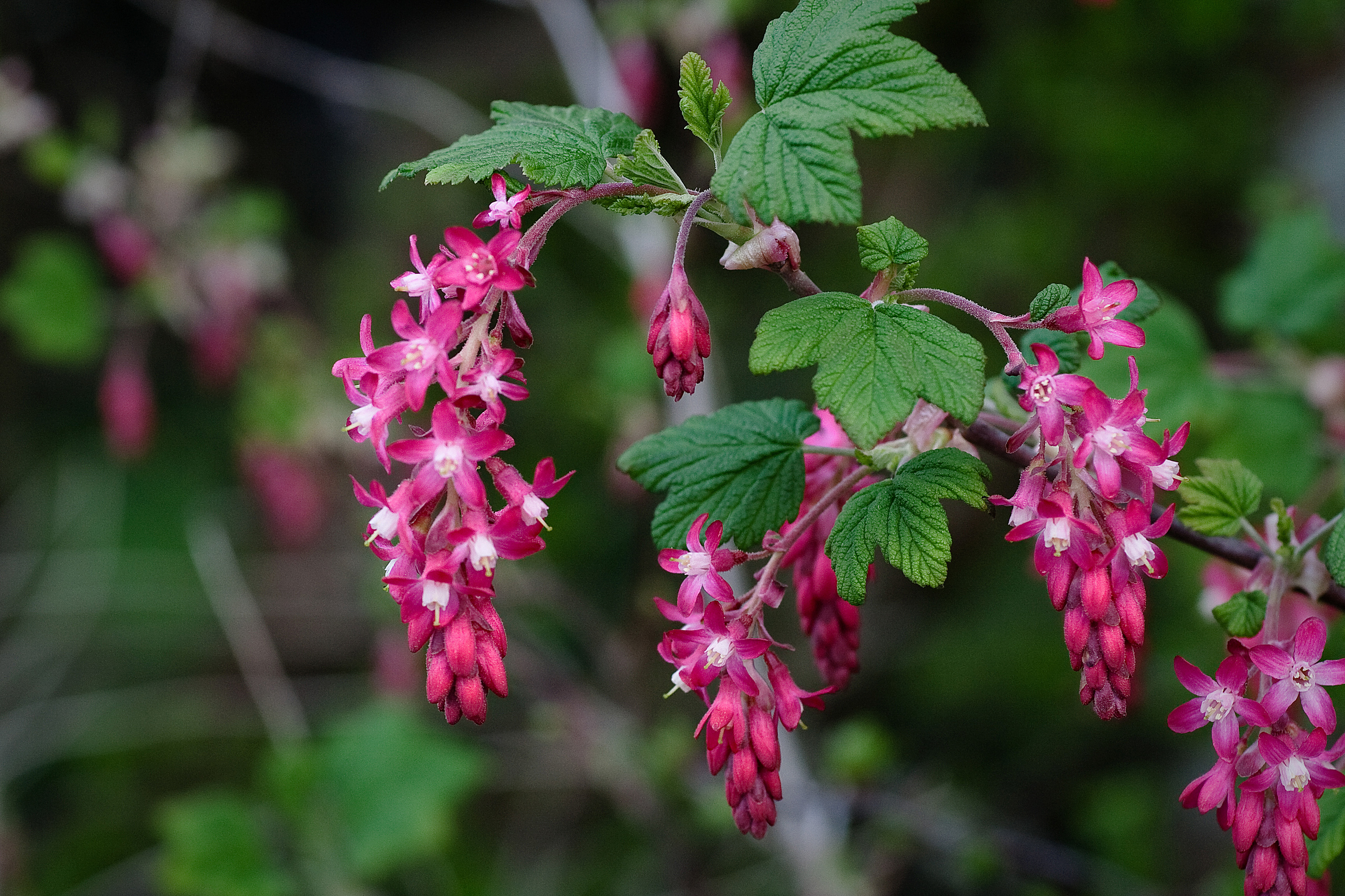 Flowering Currant cultivar (or escaped cultivar), growing by a Somerset farm.